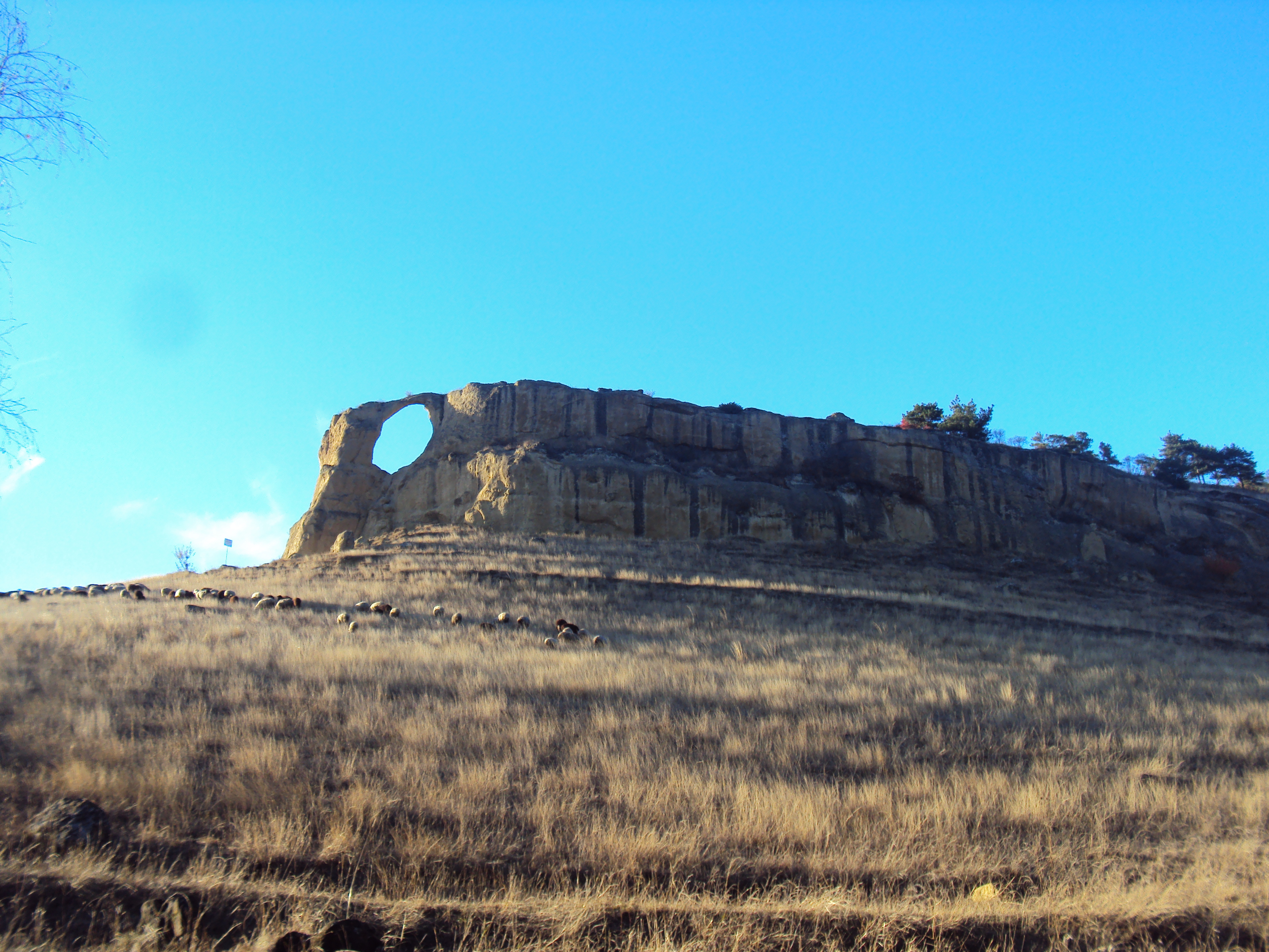 Mount Ring